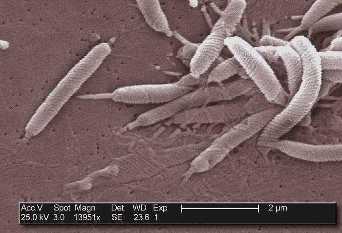 This scanning electron micrograph depicts a grouping of Gram-negative ”Flexispira rappini” bacteria, magnified 13,951x. Its name ”F. rappini” is considered provisional, for it was never formally proposed or accepted. Subsequently determined to be closely related to Helicobacter spp., it is referred to as Helicobacter sp. flexispira in the literature.